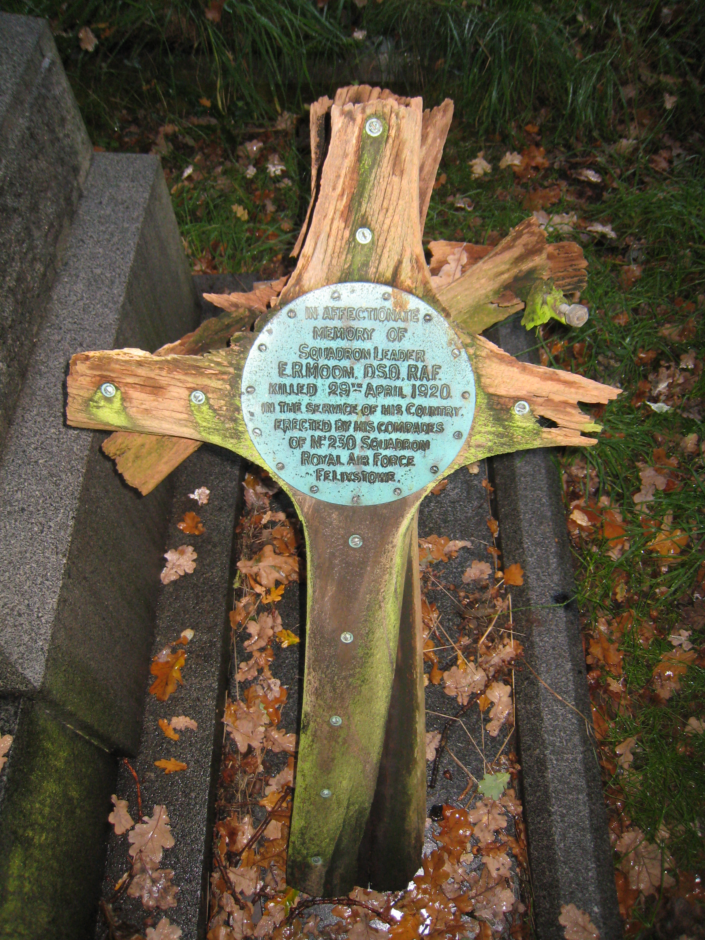 The headstone of pioneer aviator, Edwin Moon, at Southampton Old Cemetery